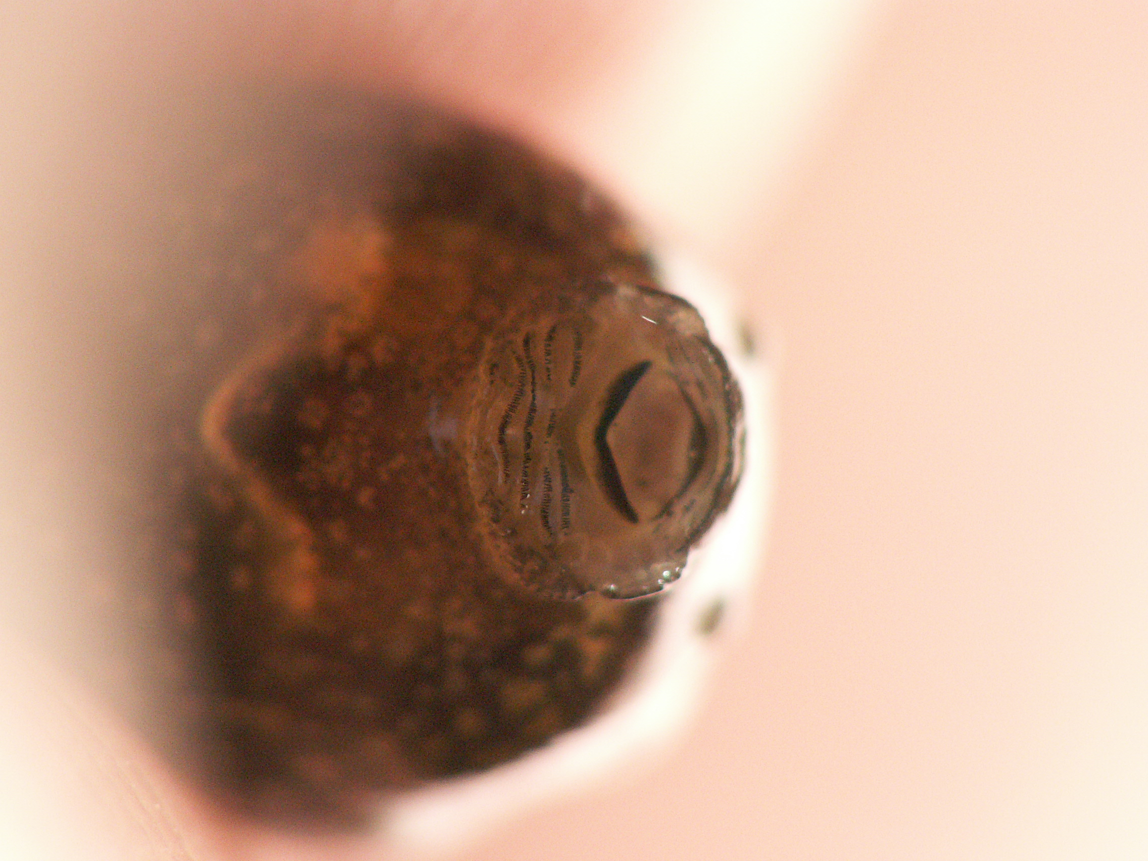 The ridges on the mouth of the frog larva are typical for the frog species, the larva has to be held by the tail belly up and inspected or photographed. Rana temporaria has four rows on the underlip, Rana arvalis three ( ISBN 90 5210 419 00 ). Taken in Arnhem the Netherlands